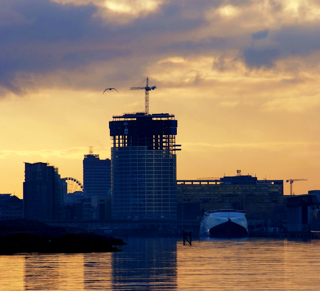 Belfast skyline